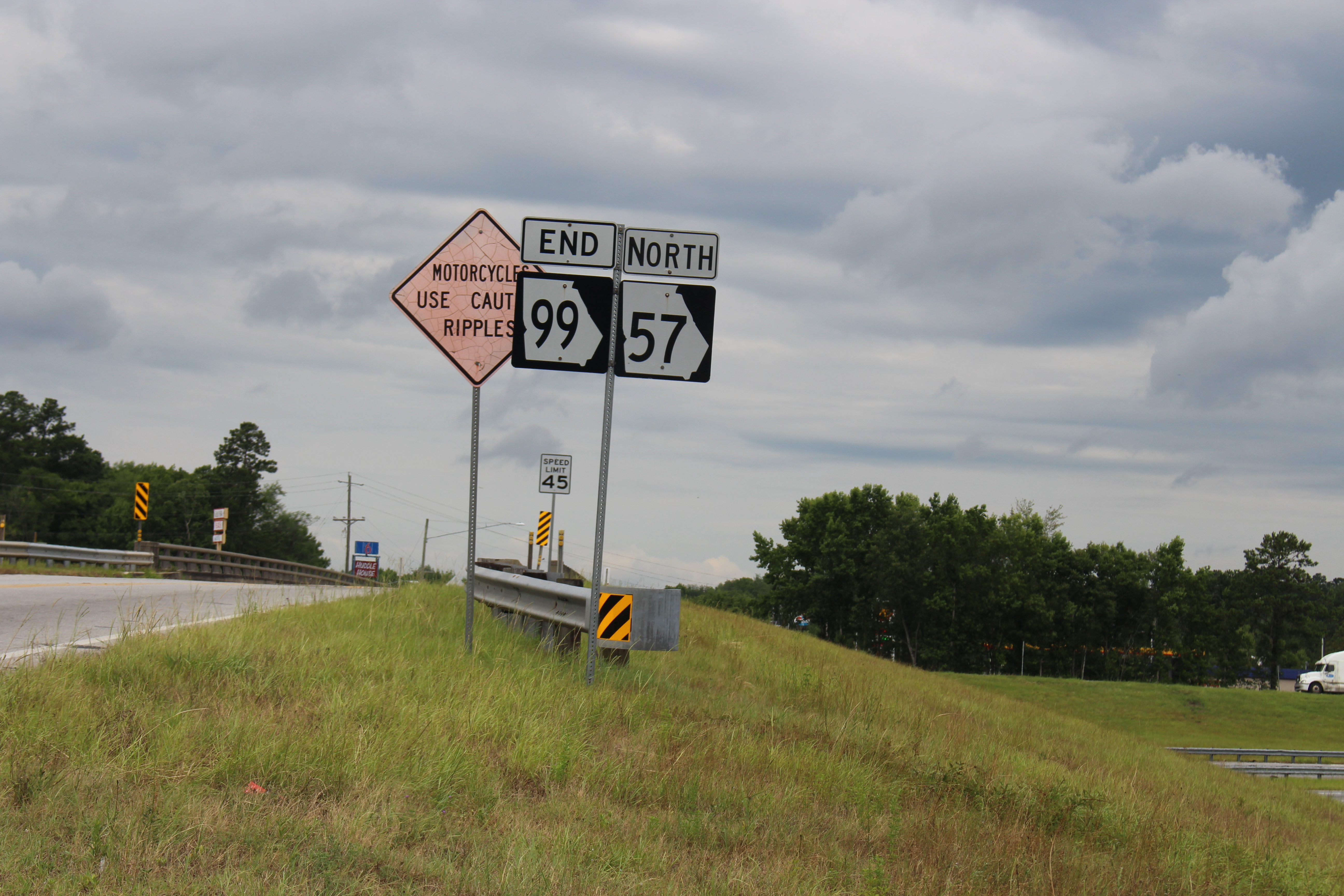 GA99 NB end, McIntosh County, Georgia